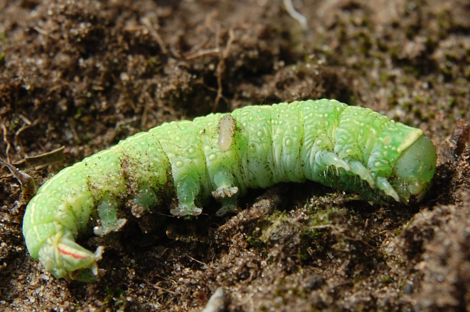 Pseudoips prasinana, caterpillar, paralyzed by specoid wasp Ammophila sp.